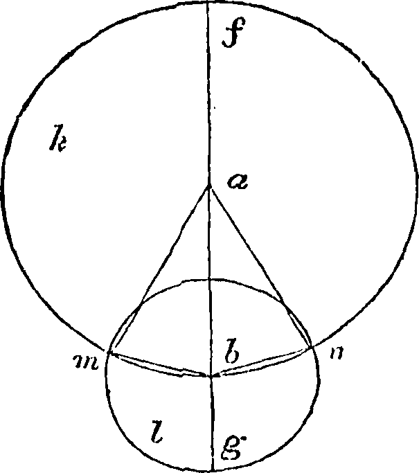 Fleuron from book: The philosophical and mathematical commentaries of Proclus, on the first book of Euclid's elements. To which are added, a history of the restoration of Platonic theology, by the latter Platonists: and a translation from the Greek of Proclus's theological elements. In two volumes. ...